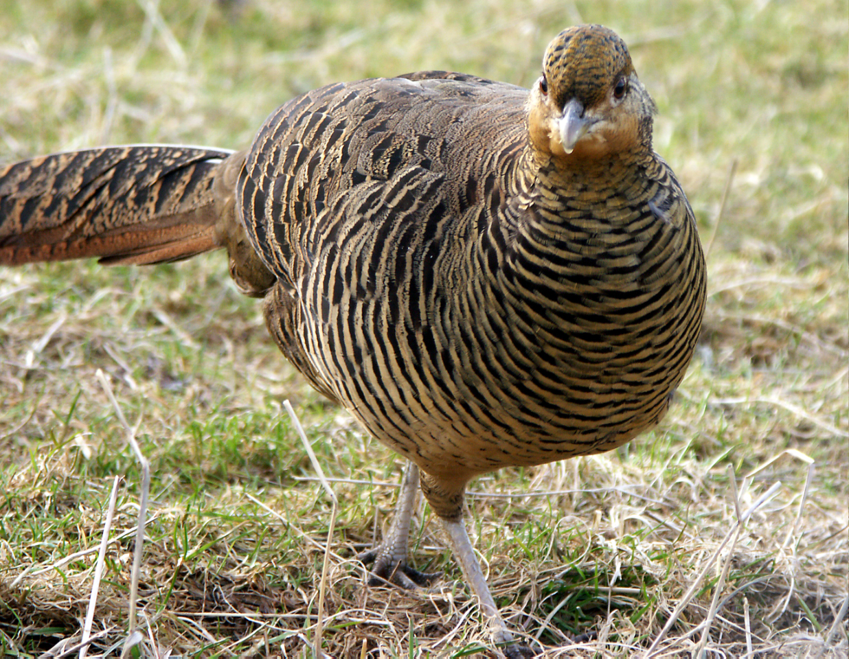 Golden Pheasant (Chrysolophus pictus) in captivity in Svalöv, Sweden